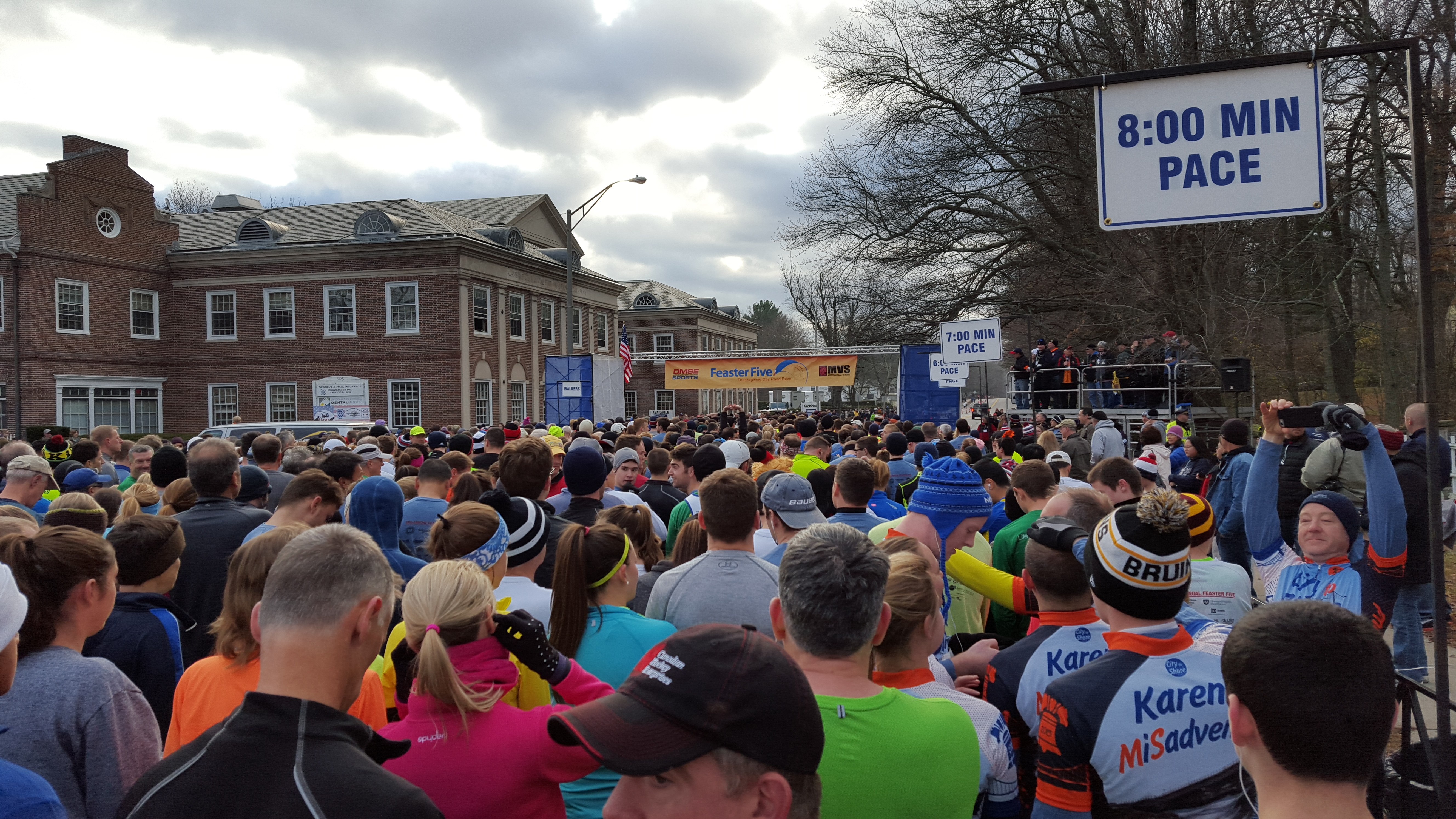 The Feaster Five Starting line in Andover, Massachusetts in 2015. Other information Original size